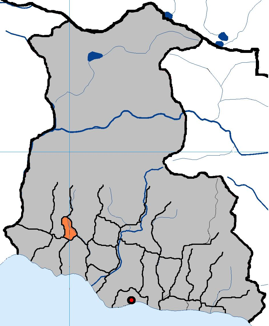 Map showing the location of the village Barmysh in Abkhazia.